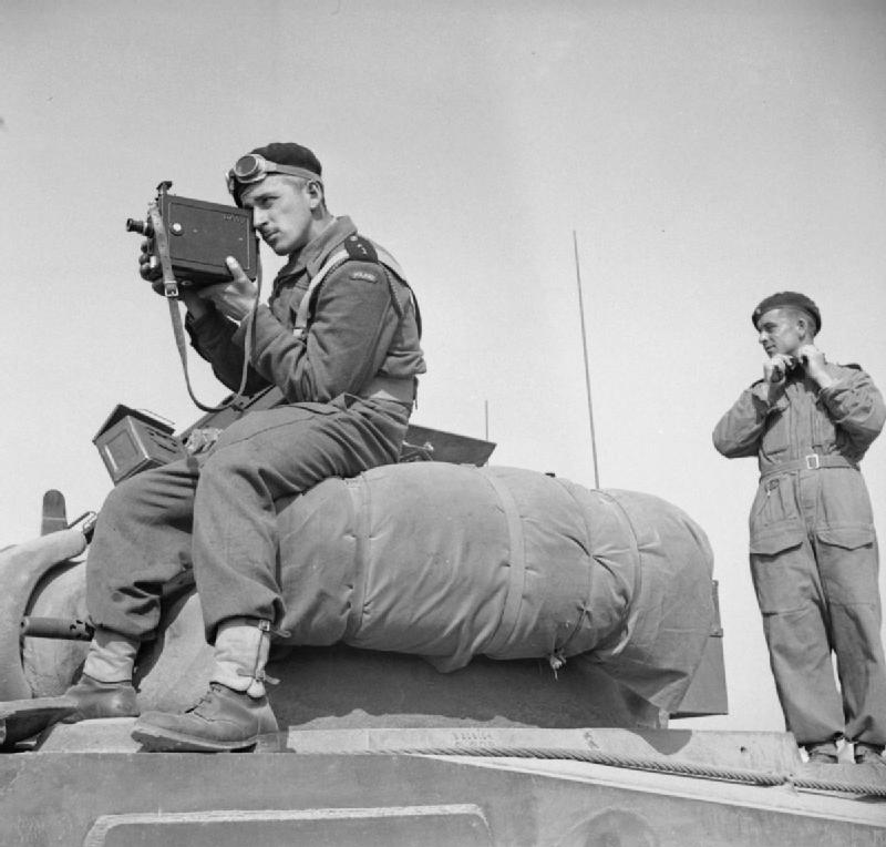 The 1st Polish Armoured Division in the Normandy Campaign 1944 Cameramen in uniform: 2nd Lieutenant Jerzy Januszajtis, a Polish Army Film Unit cameraman, films from the top of a Sherman tank of the 1st Polish Armoured Division tank during Operation 'Totalise', south of Caen, Normandy on 8 August 1944. He is using a De Vry camera fitted with a sling.